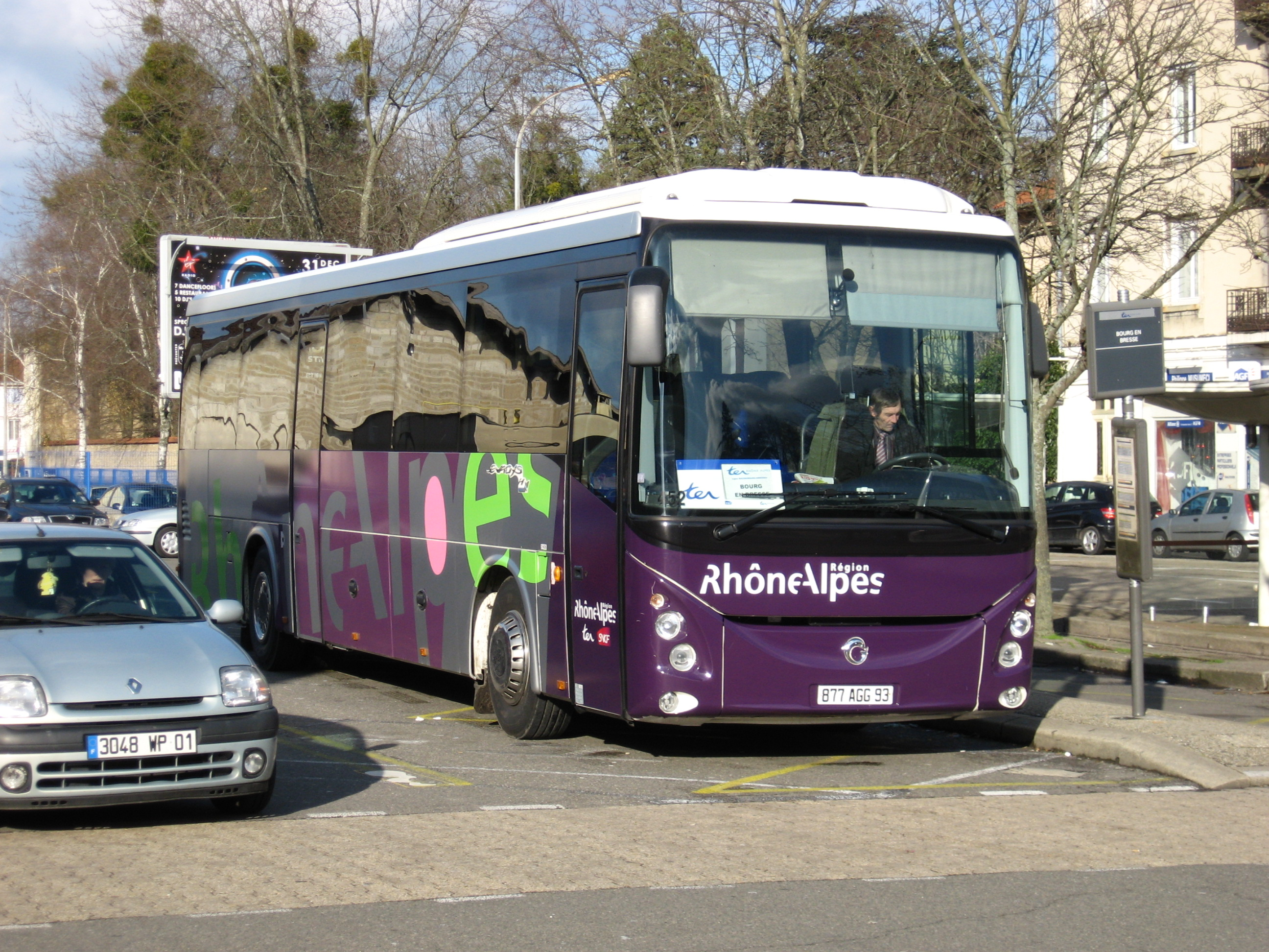 TER bus in TER Rhones-Alpes colours at Bourg-en-Bresse